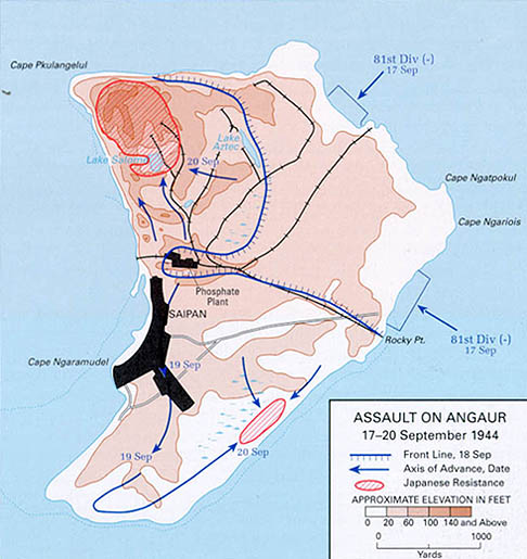 Map of the battle of Angaur. Downloaded from [1] 21:28, 3 November 2004 Gdr 486x515 (64320 bytes) (Map of the :en:battle of Anguar PD-USGov-Military Downloaded from [